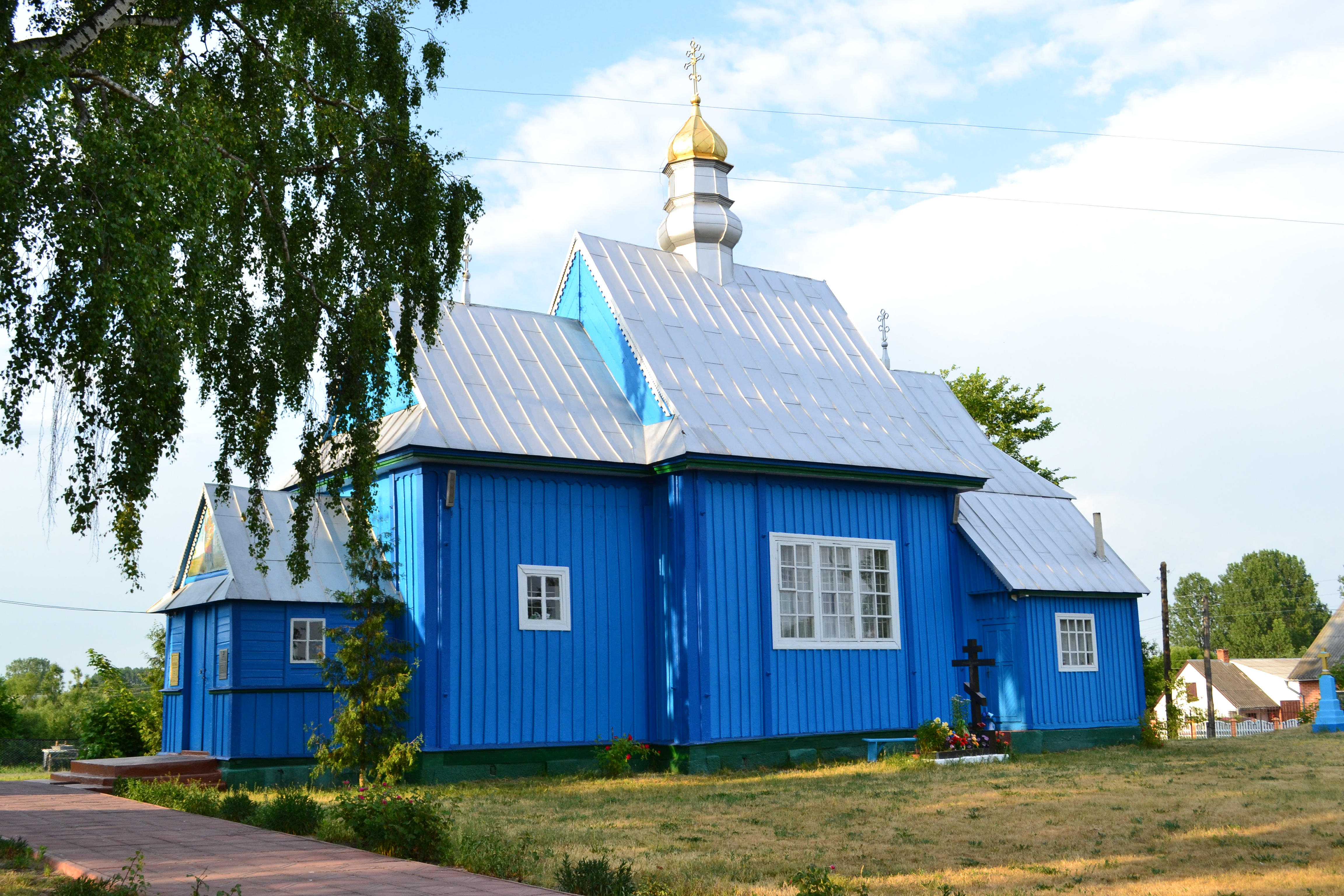 Church of St. Demetrius in Zhorany, Ukraine